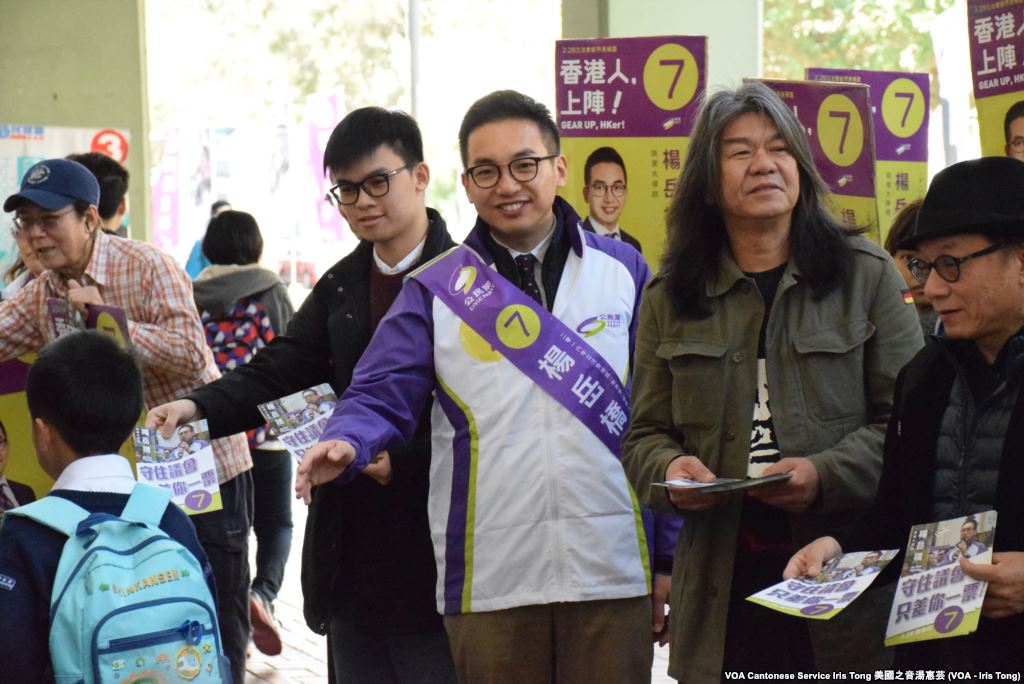 Pan-democratic candidate for New Territories East by-election Alvin Yeung with Legislative Councillor Leung Kwok-hung and former Scholarism spokesman Oscar Lai. 中文（香港）: 泛民新東補選候選人楊岳橋(白衣者)與助選的立法會議員梁國雄(右二)、前學民思潮發言人黎汶洛